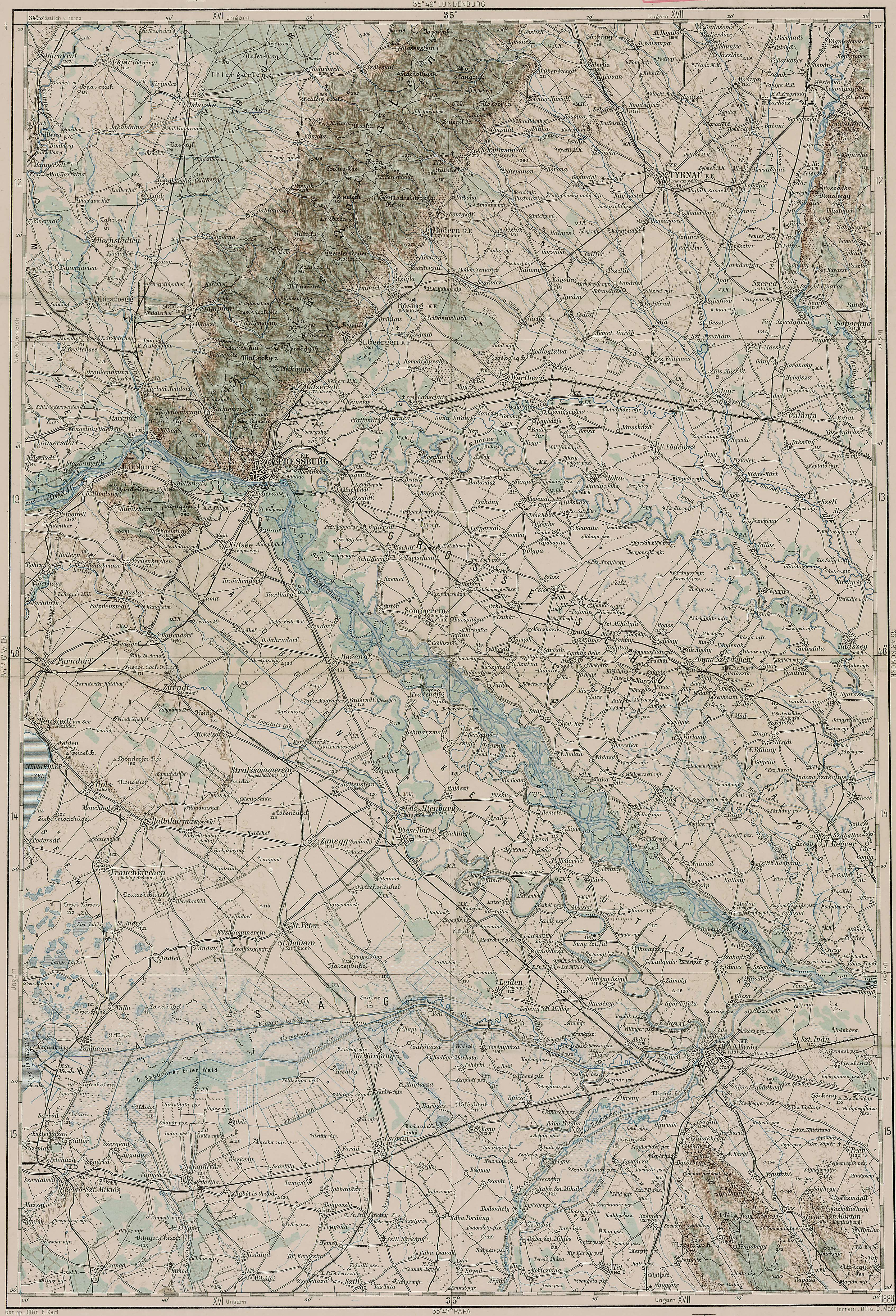 3rd Military Mapping Survey of Austria-Hungary - Pressburg